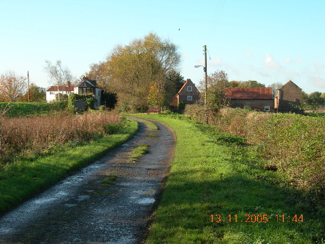 The hamlet of Booth, East Riding of Yorkshire, England.Known variously as Booth, Boothferry and Boothferry Bridge. Small collection of houses close to the Boothferry Bridge on the River Ouse. Property to the left is the old inn which used to serve ferry passengers before the bridge was built (1920's).